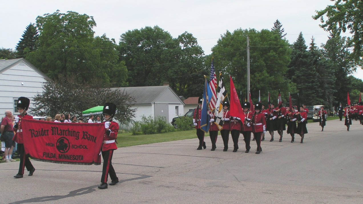 Fulda, Minnesota, 2006